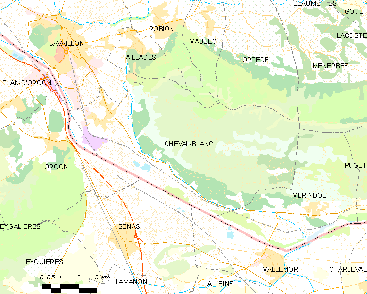 Map of French municipality Cheval-Blanc